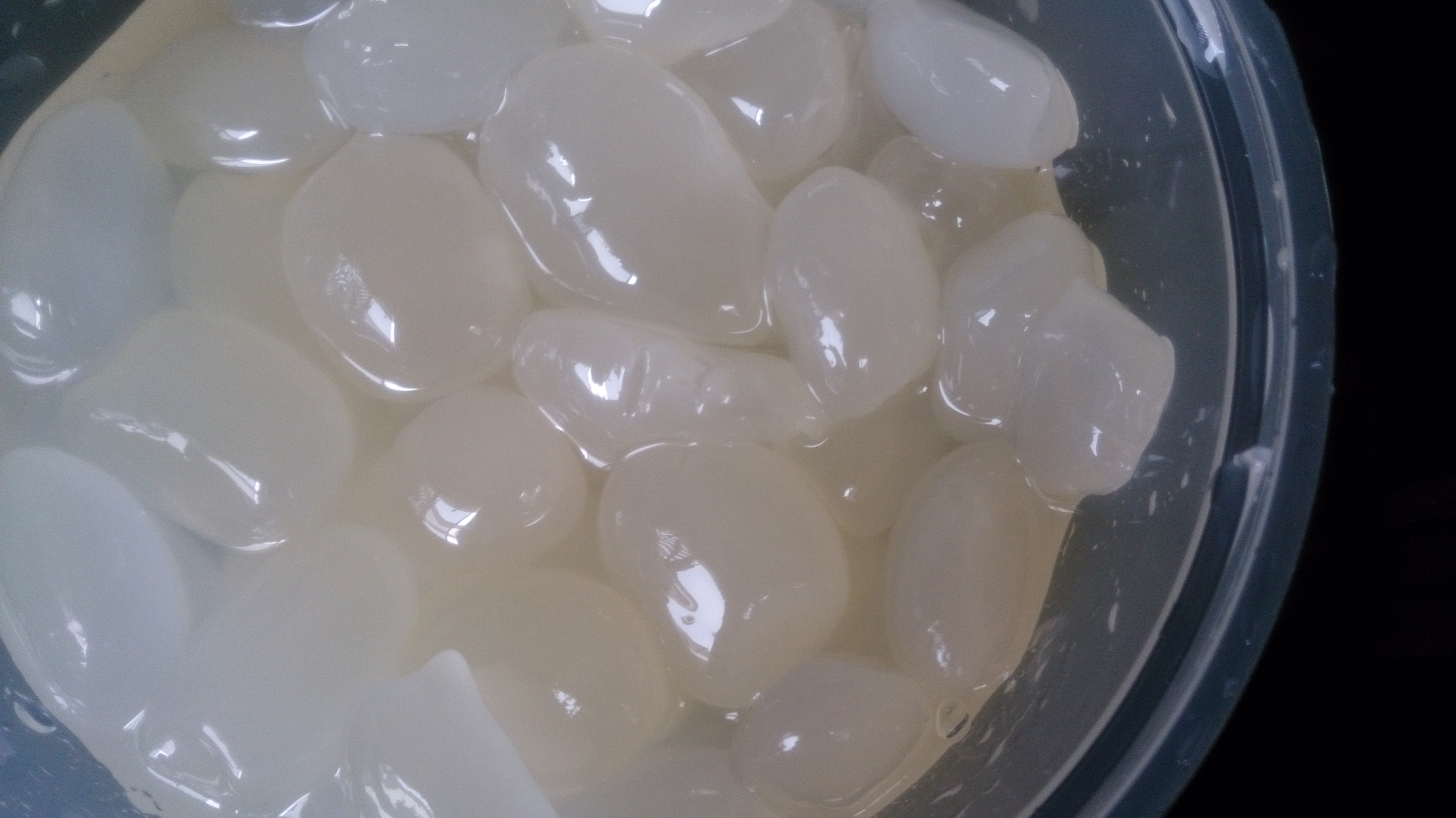 delicious immature fruit of the nipa palm